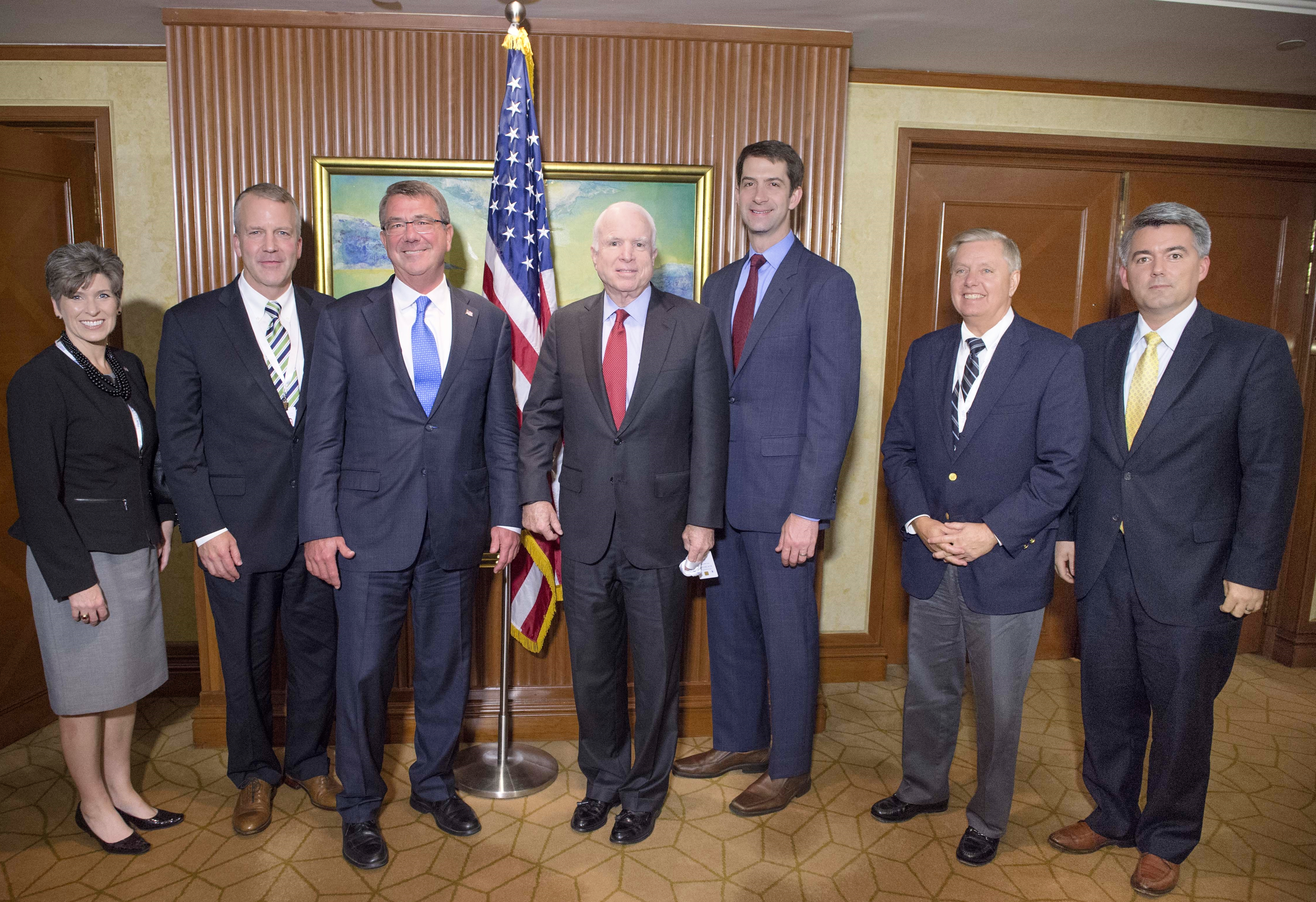 15th International Institute for Strategic Studies Asia Security Summit